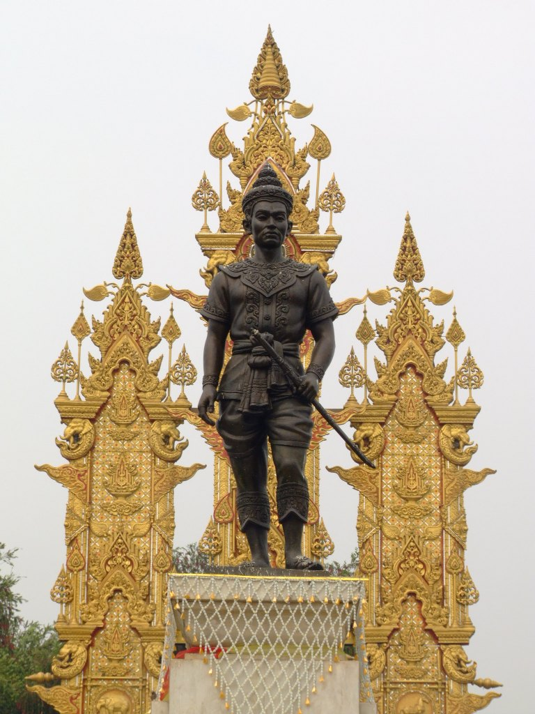 Monument of King Mangrai of Lanna Kingdom, situated in the heart of Ha Yaek Pho Khun (King's Intersection), Amphoe Mueang Chiang Rai, Changwat Chiang Rai, Thailand. Behind the statute are the three golden flags, designed by three renowned artists, Thawan Datchani, Chaloemchai Khositphiphat and Kanok Witsawakun, respectively. The picture is taken by LazarusSP1, on behalf of Thanyakij.